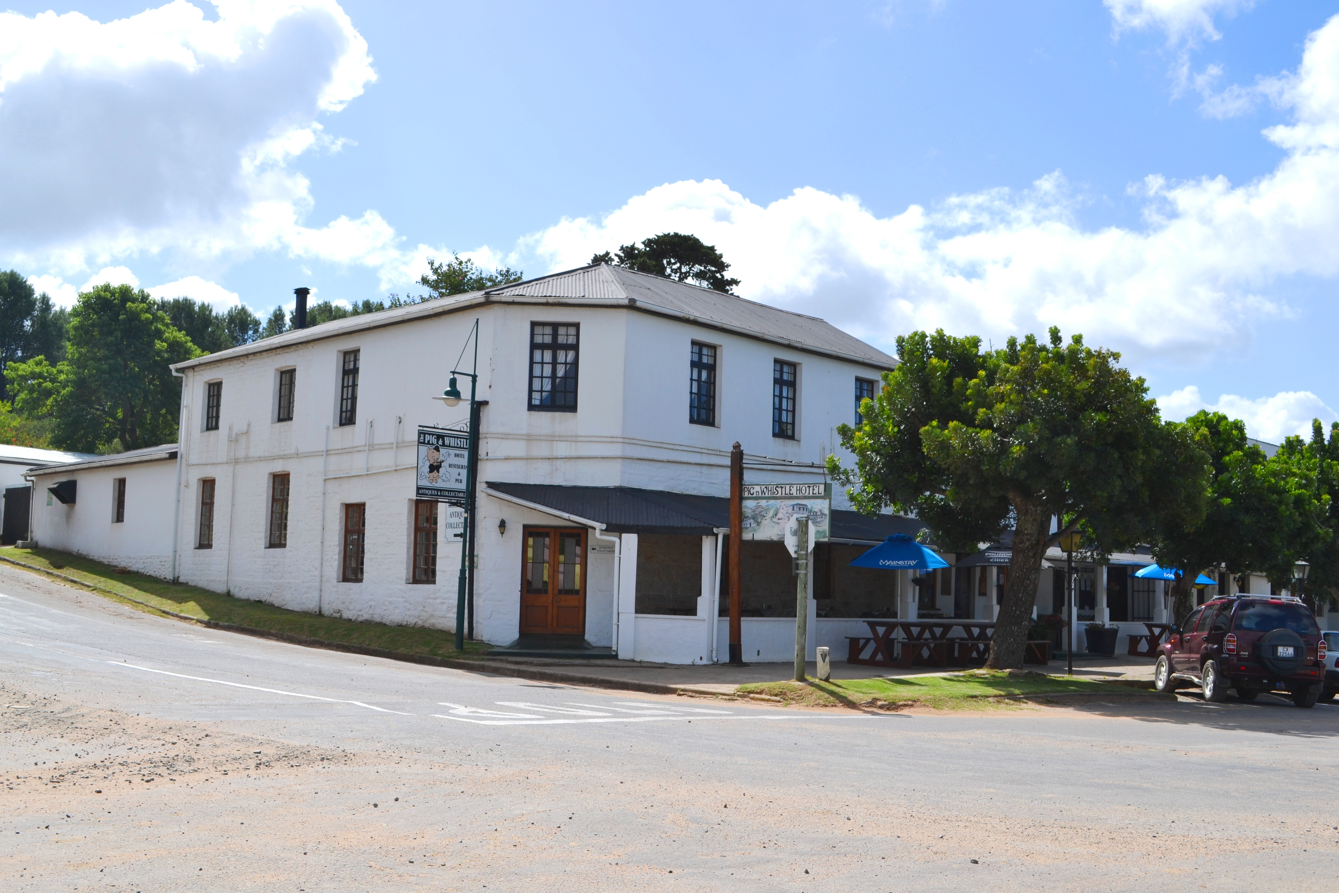 Kowie Road, Bathurst